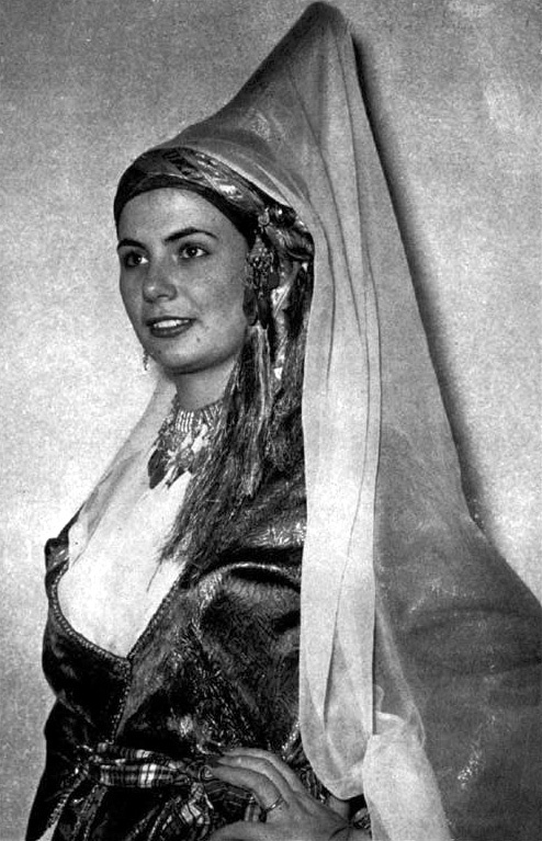 Costume of a 19th-century Lebanese princess. The tantour headdress was popular among Lebanese noblewomen. The elegant dress is an ankle-length gambaz, made in coat style of silk brocade shot with silver threads. Its long sleeves widen below the elbow, where they are slit to hang free. This gambaz is slit at the sides from the hips down, forming three panels of the skirt. A long shift (shirt) of silk gauze is worn under it. Not shown in the photo: The silk underpants are very full pantaloons in the Turkish style and are gathered onto rings at the ankles. The costume is completed by gold embroidered leather slippers with turned-up pointed toes. This costume belonged to the Lebanese Bureau of Tourism.